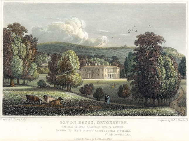 "Oxton House, Devonshire, the seat of John Beaumont Swete, Esquire, to whom this plate is most respectfully inscribed by the proprietors". Engraving by Thomas Shepherd after a painting by R.Brown, published in "History of Devonshire...1830"